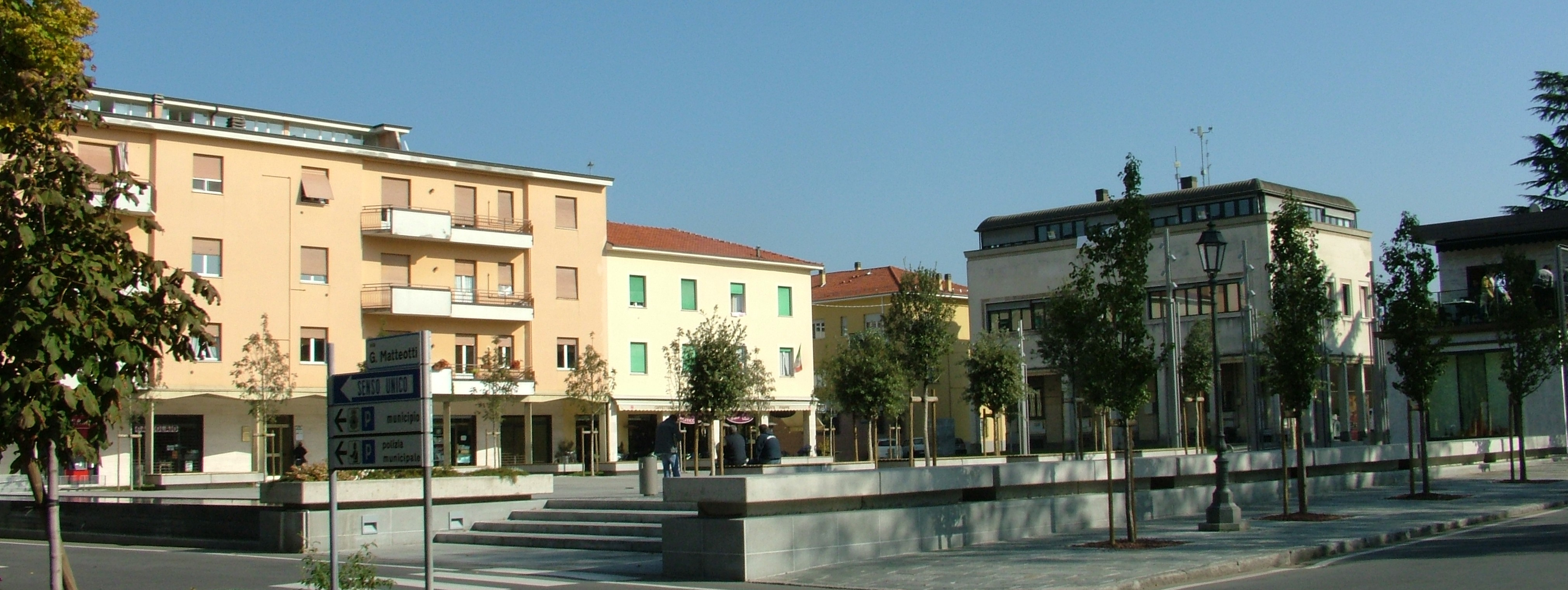 Italy, province of Parma, Collecchio, Liberty square with the new town hall